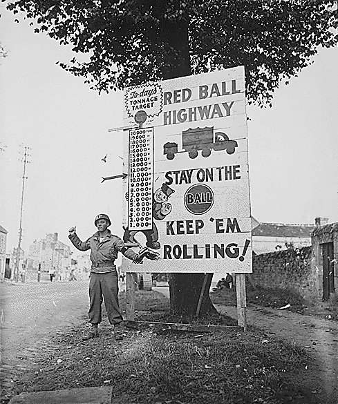 Corporal Charles H. Johnson of the 783rd Military Police Battalion, waves on a "Red Ball Express" motor convoy rushing priority materiel to the forward areas, near Alenon, France., 09/05/1944